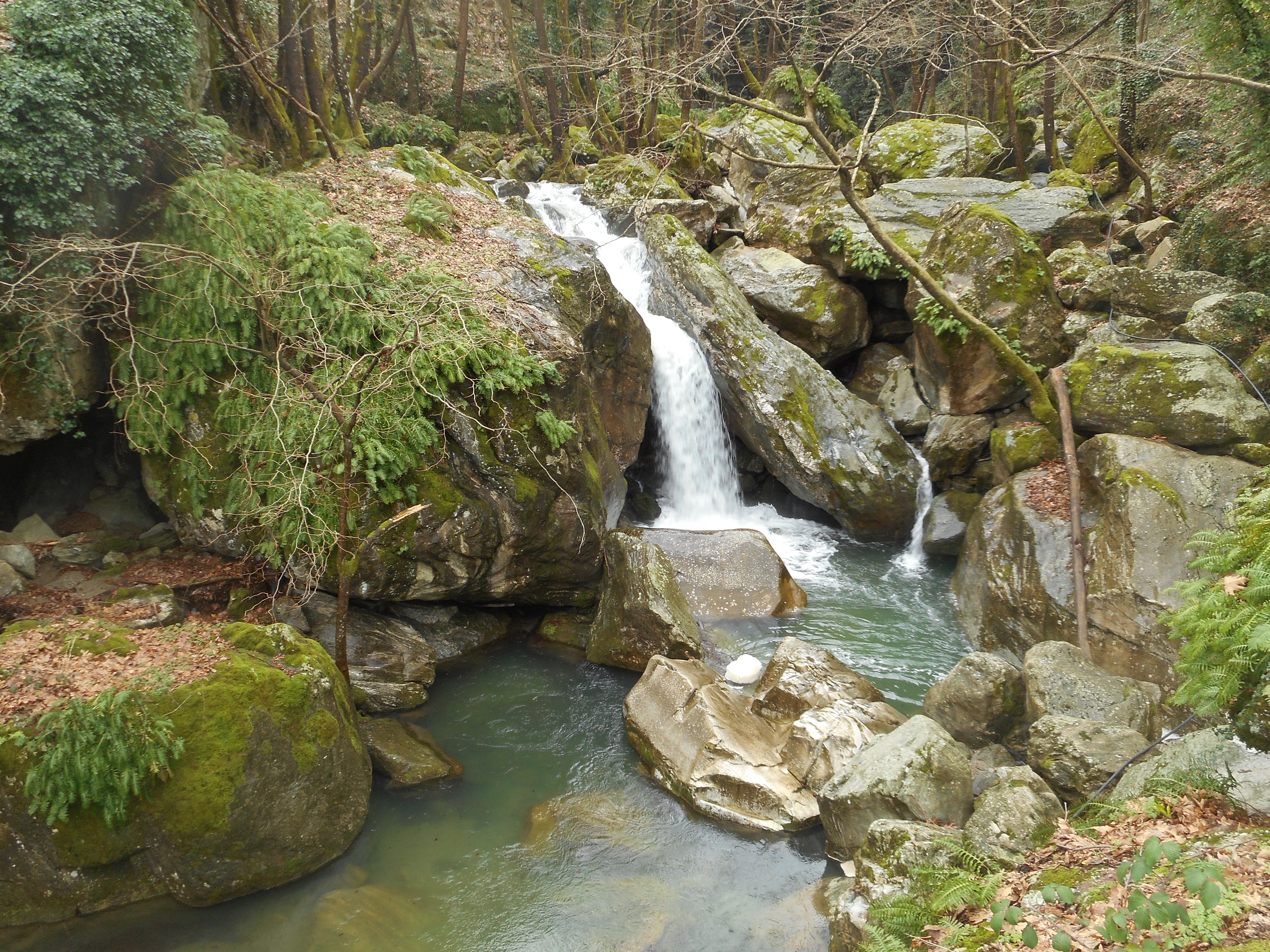 This is a photography of Natura 2000 protected area with ID GR1430001